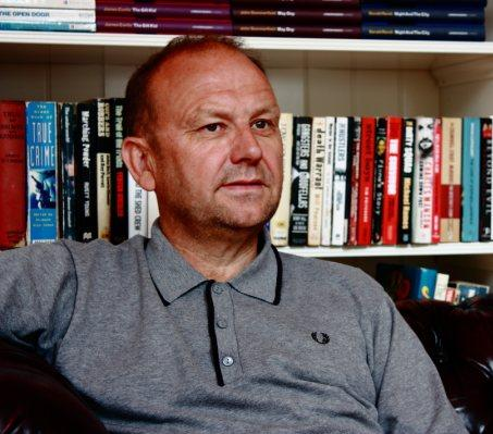 Author Martin Knight at home, June 2010